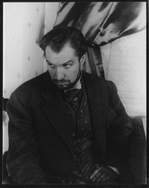 Title: Vincent Price on Broadway as Mr. Manningham in Angel Street Abstract/medium: 1 photographic print : gelatin silver